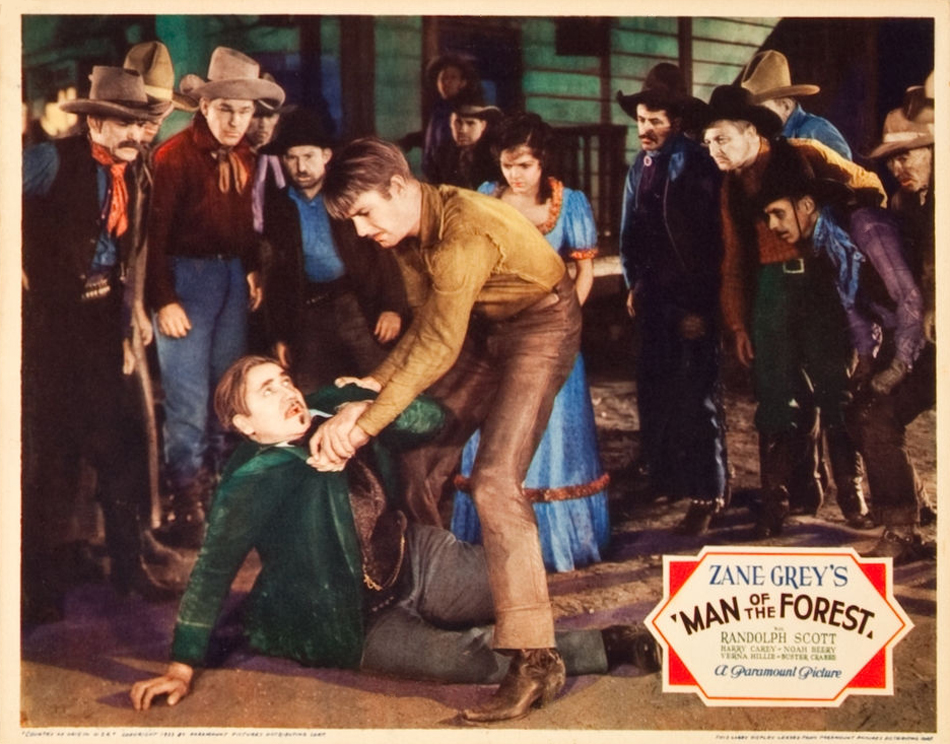 Man of the Forest, directed by Henry Hathaway (1933), with Randolph Scott and Verna Hillie